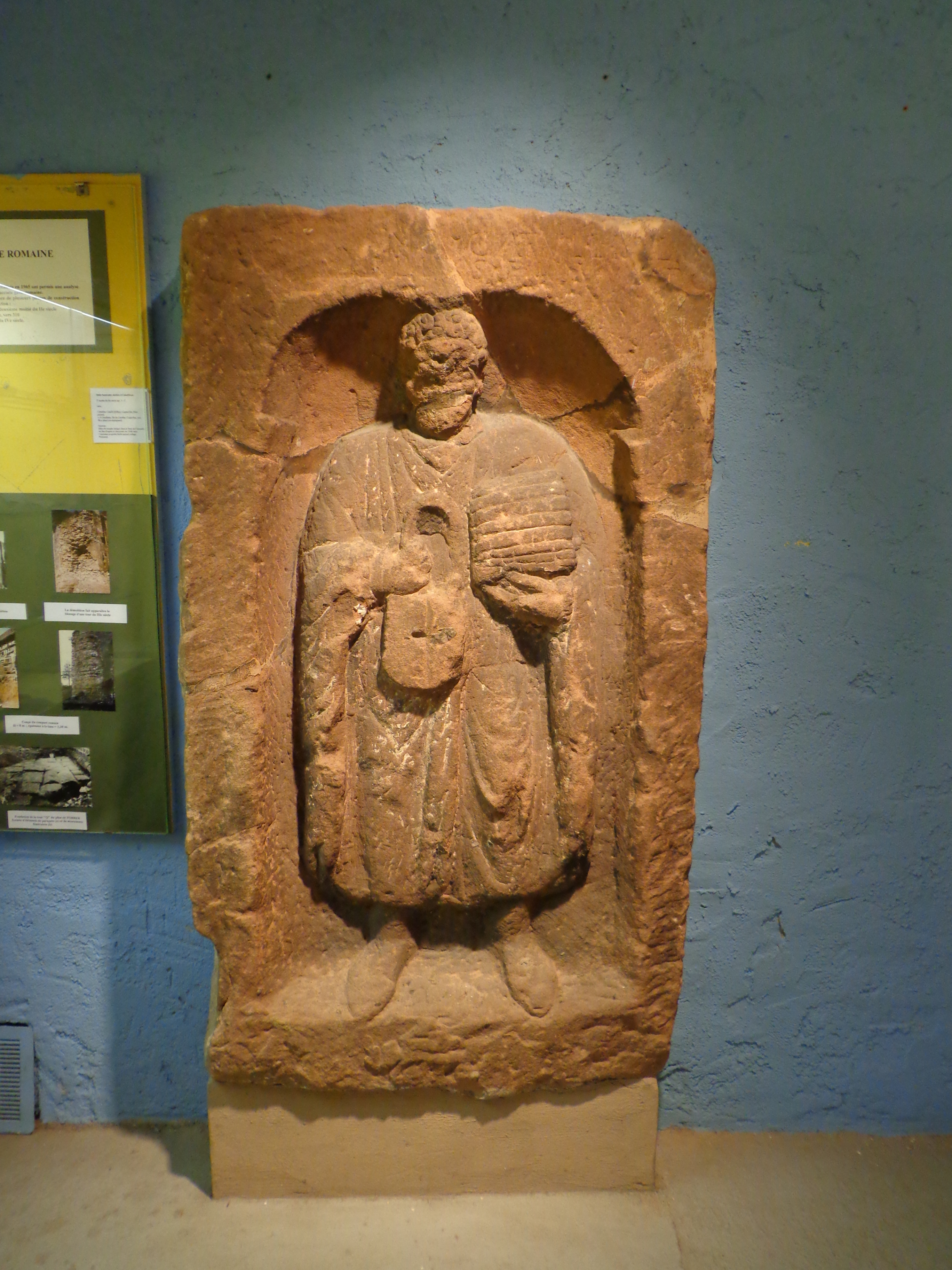 Collections of the museum of Saverne, Alsace, France